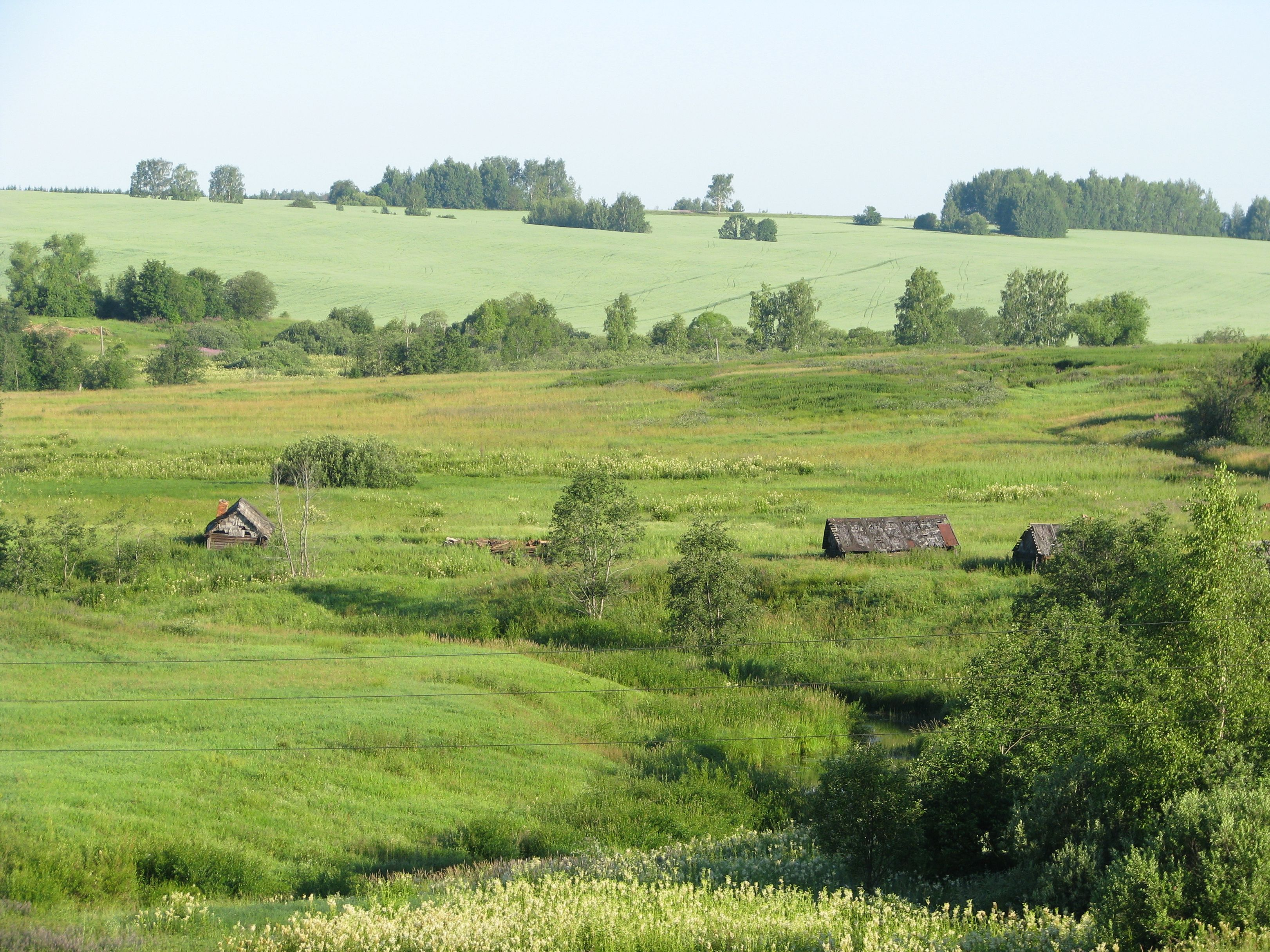 A view of Opolye, Kolchugino rayon of Vladimir oblast